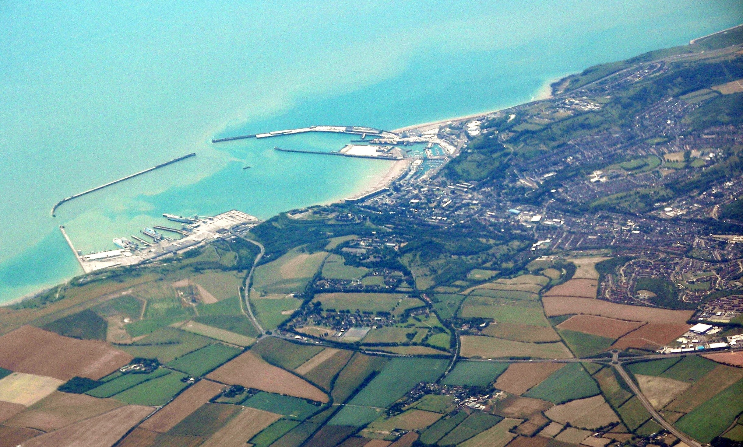 Photo of (port of) Dover from a plane travelling in Southeast direction.